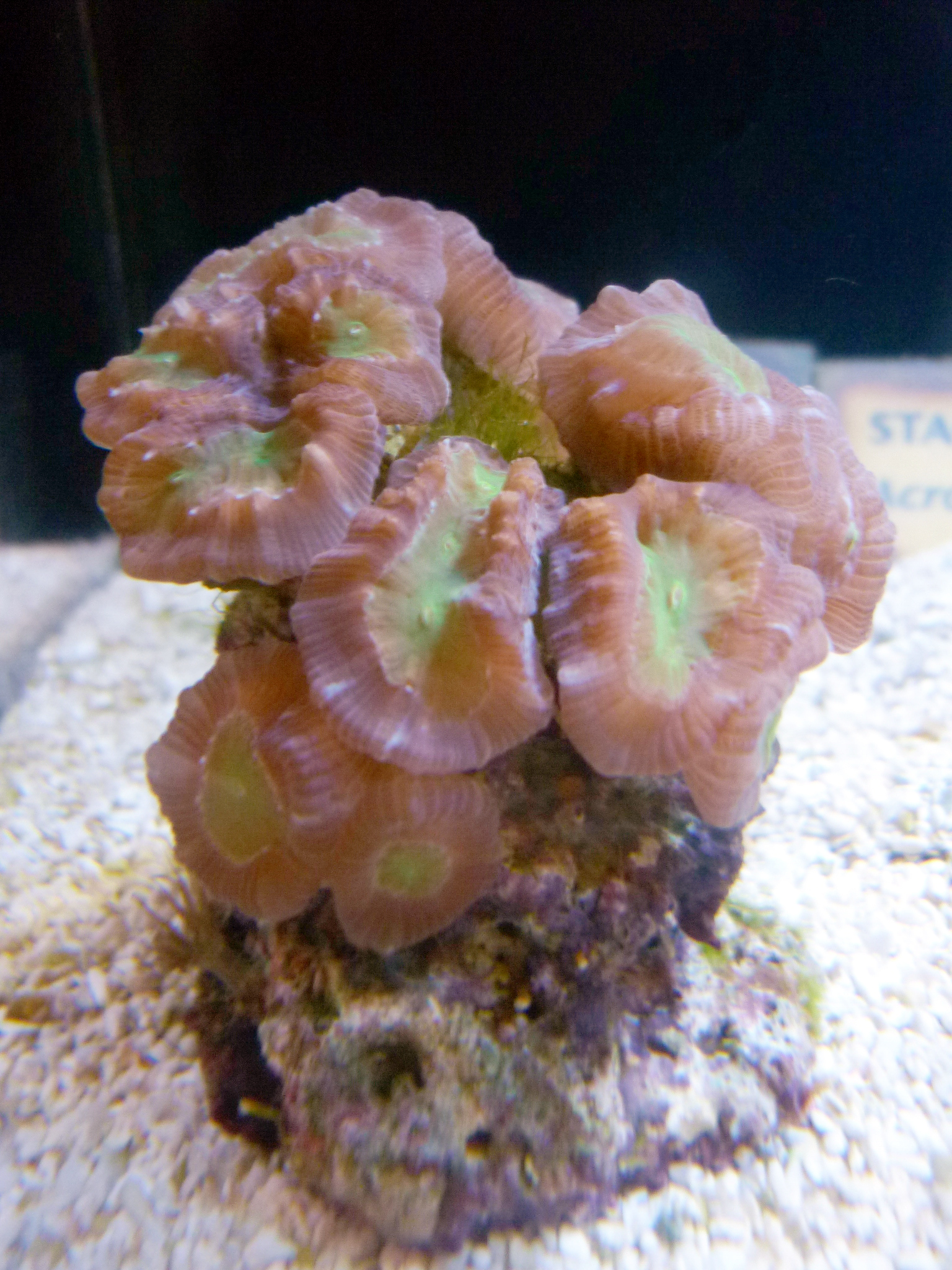 Cat's Eye Coral (Caulastrea furcata) in Waikiki Aquarium.